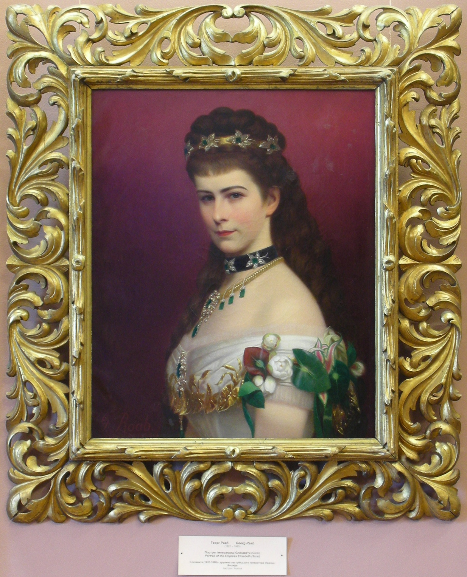 Portrait of the Empress Elizabeth